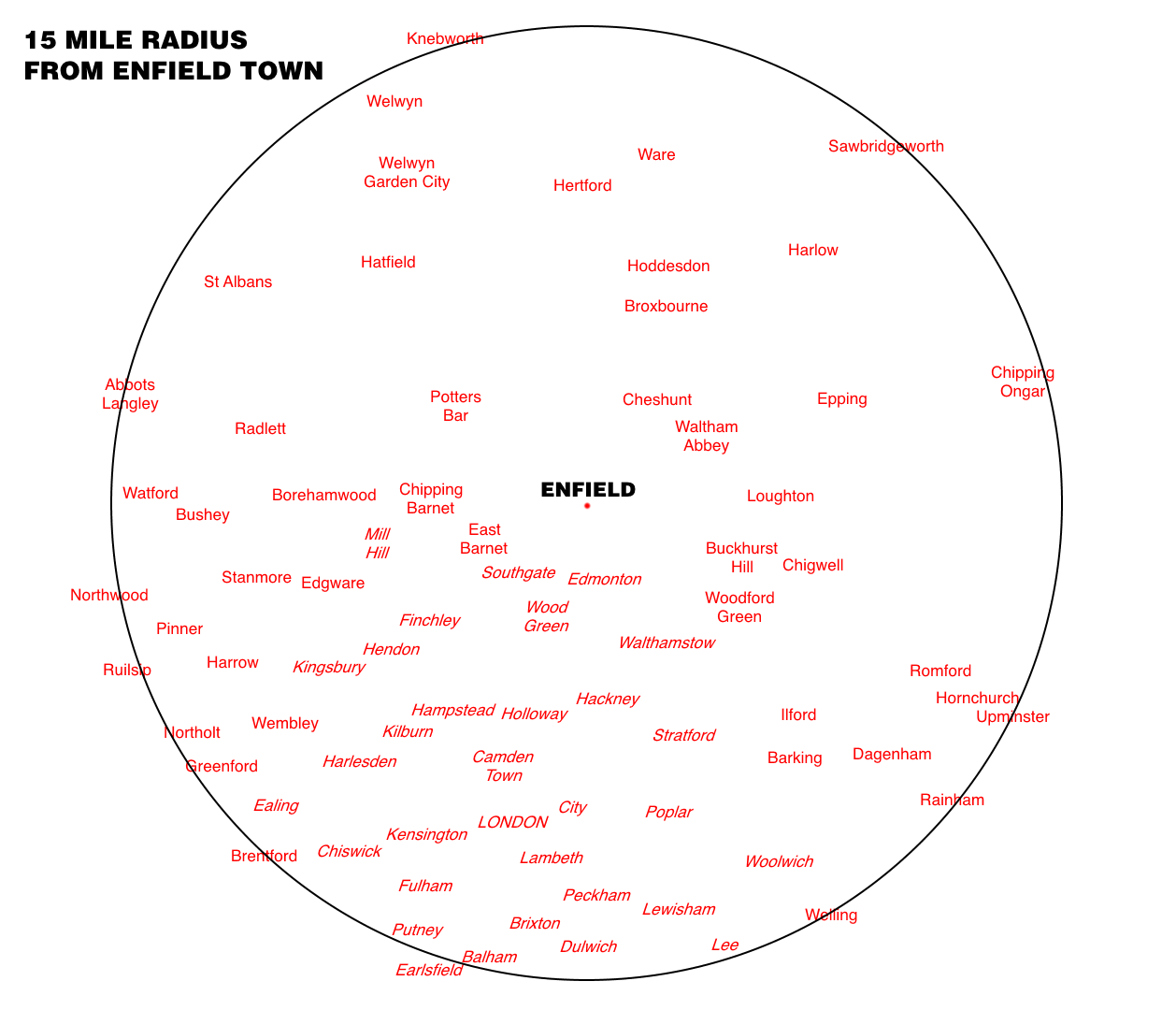 15 mile radius circle map from Enfield Town, England.